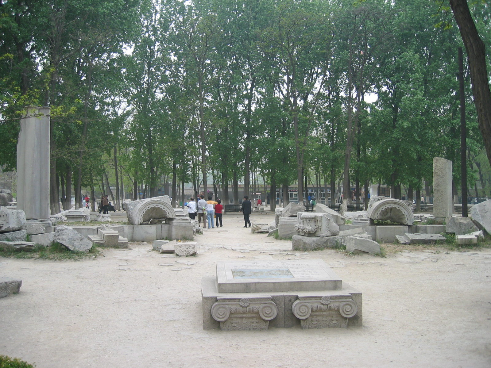 The ruins of the Yang Que Long (Aviary Gate) in the Xiyang Lou (Western mansions) section. On the grounds of the Yunamingyuan (Old Summer Palace) — in Beijing.